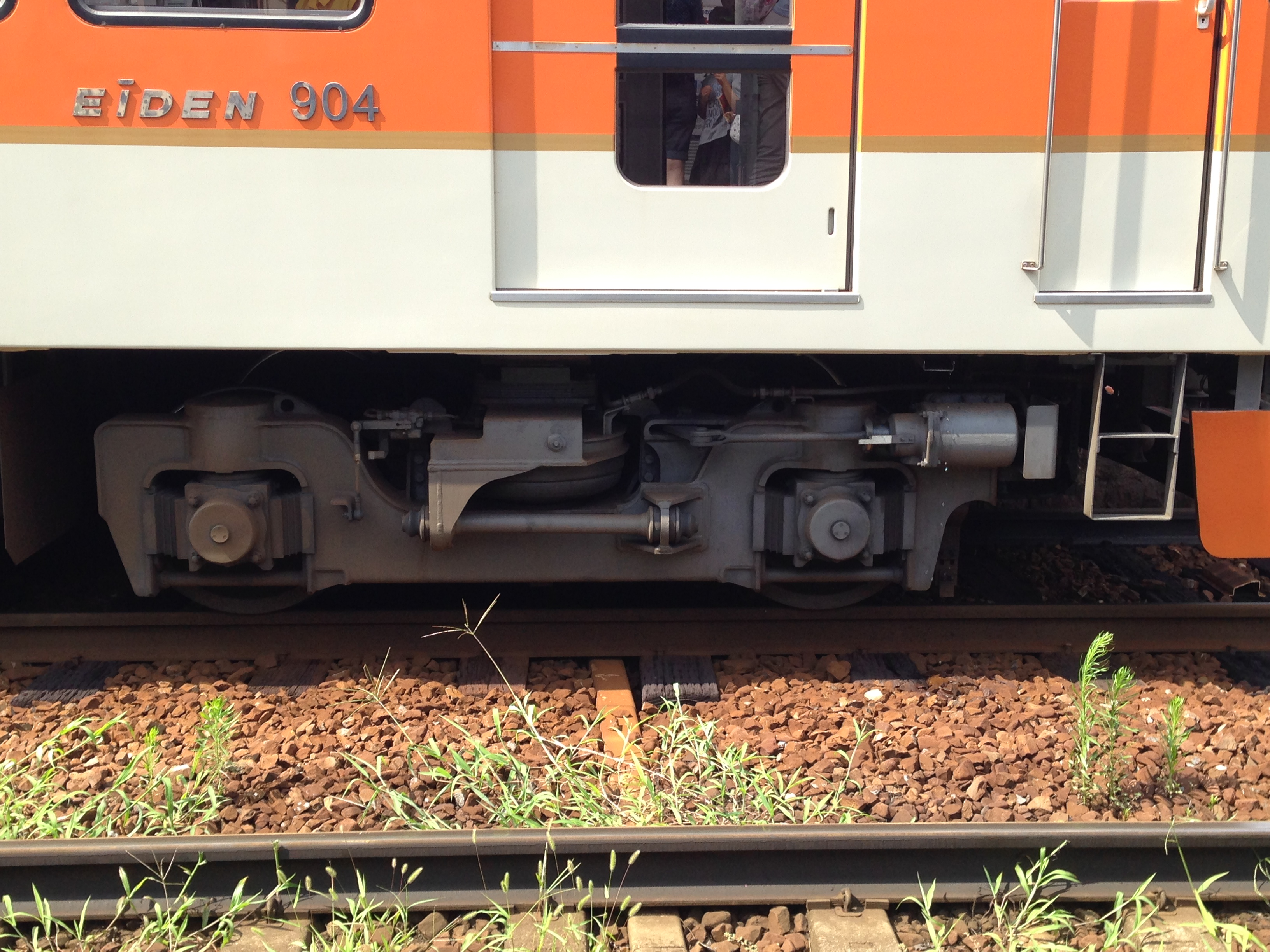 KD-232 bogie truck on Eiden Deo 904